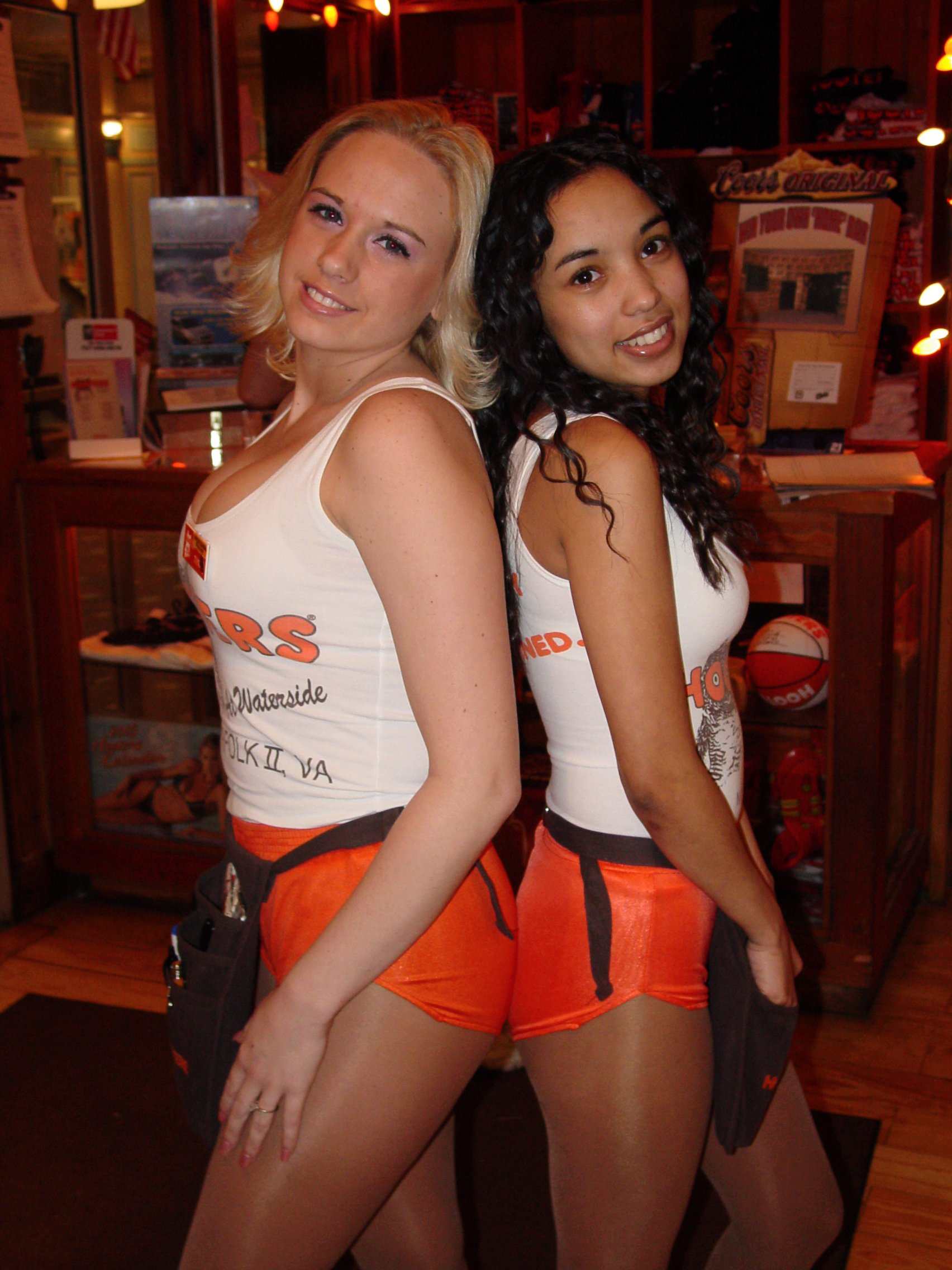 Hooters Girls at the Waterside Hooters restaurant in Norfolk, Virginia.